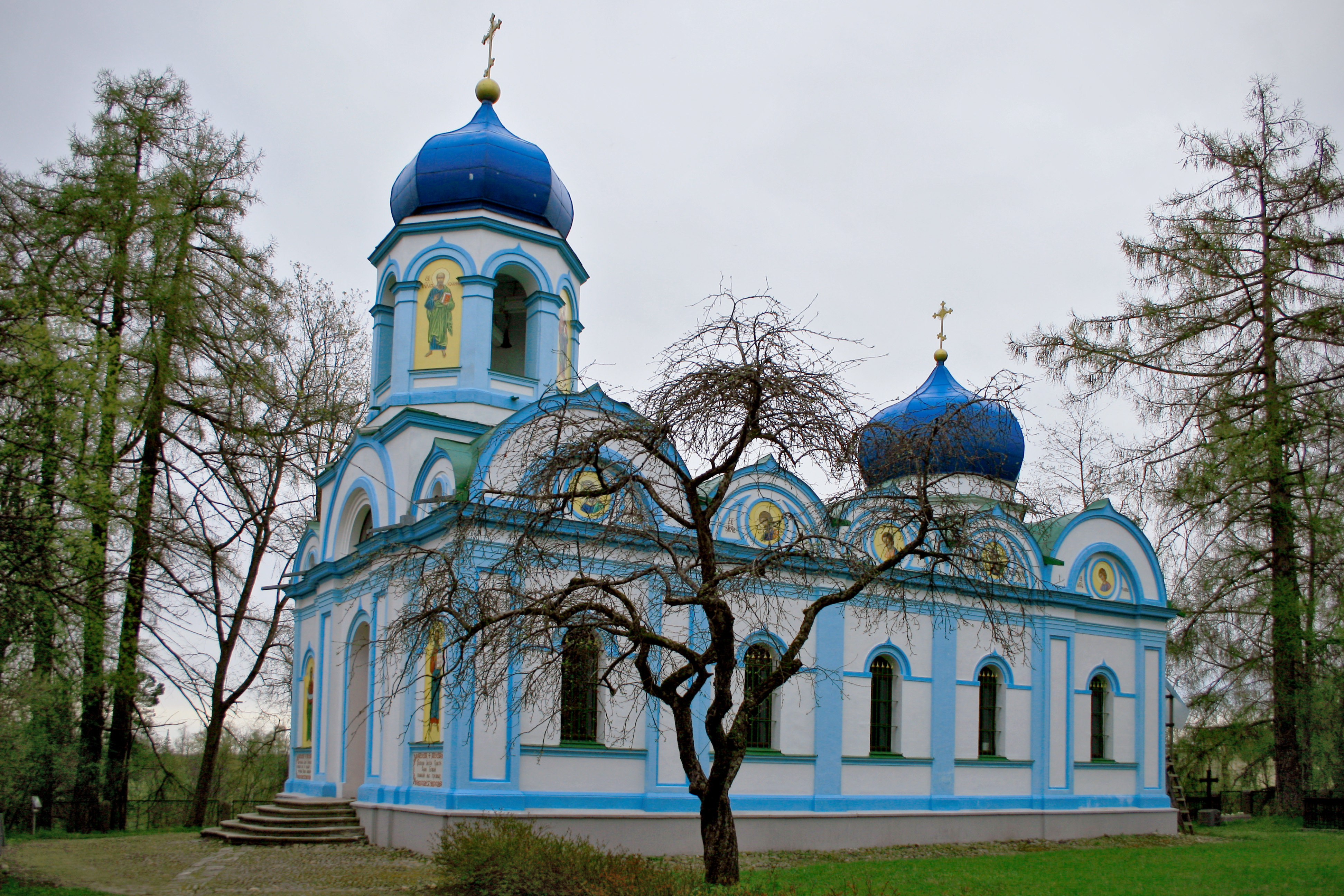 Cēsis Transfiguration of Christ Orthodox ChurchLatviešu: Cēsu Kristus Apskaidrošanas pareizticīgo baznīca